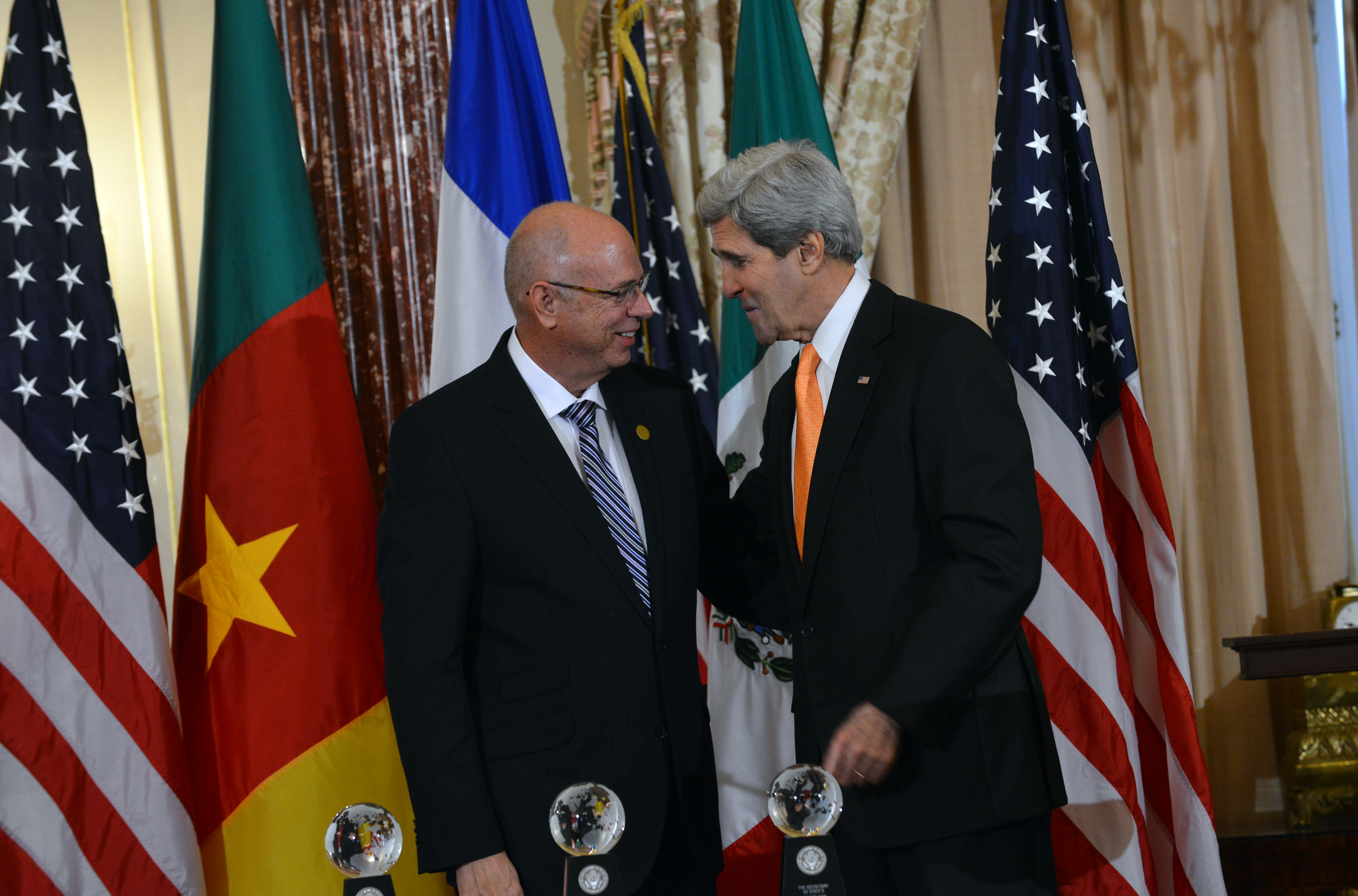 U.S. Secretary of State John Kerry shakes hands with Bob Taylor, the CEO of Taylor Guitars in Cameroon, which received the Secretary of State's Award for Corporate Excellence in the small business category, at the U.S. Department of State in Washington, D.C., on January 29, 2014. [State Department photo/ Public Domain]